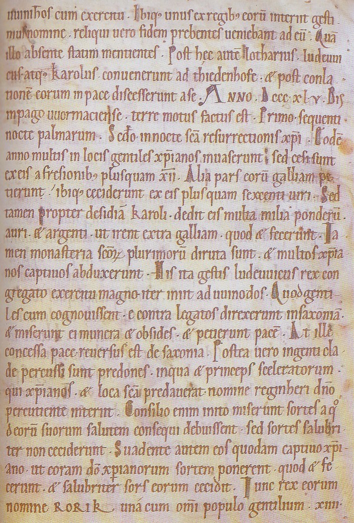 Annales Xantenses, IX Century - Codex Cotton Tiberius CXI:British Library